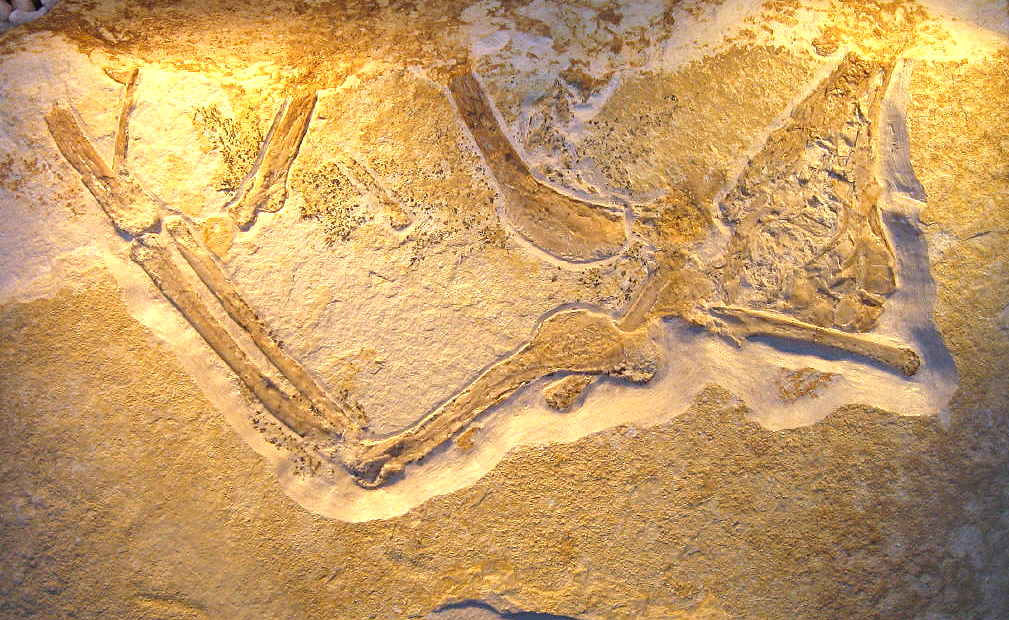 Fossil specimen of a partial skeleton of Archaeopteryx (catalogue no. SNSB BSPG VN-2010/1). This specimen is called “the eighth specimen” and was probably found around 1990 at the village of Daiting in the bavarian part of Suevia, Germany, and is therefore also referred to as “the Daiting specimen”. It comprises a badly preserved skull (right), left and right scapula (below the skull), left humerus, tibia, fibula, and a partial manus as well as a right partial humerus (centre and left). It was for the first time ever on public display at the the 2009 Munich Mineral Days, where this photo was taken. The image shows the original fossil – not a cast.In 2018 this specimen became the holotype of Archaeopteryx albersdoerferi Kundrát et al. The results of a statistical analysis of geochemical data suggest, that it comes from the Mörnsheim Formation, which is slightly younger than the Solnhofen Member of the Altmühltal Formation but is still of early Tithonian age.[1]